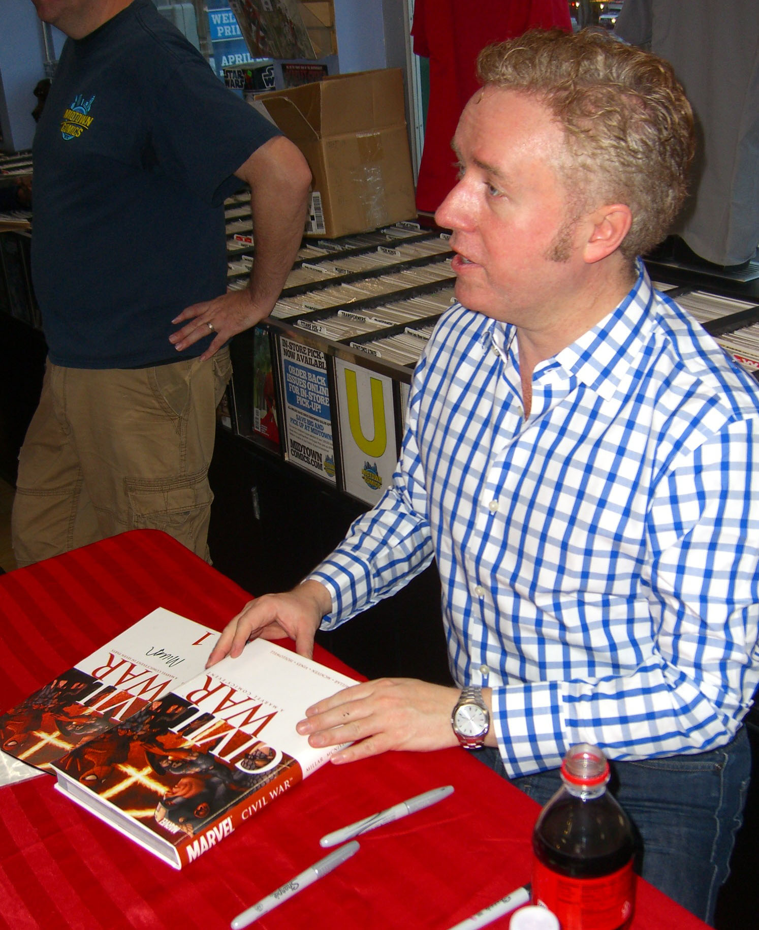 Scottish comics writer Mark Millar at an April 25, 2013 signing at Midtown Comics in Manhattan for his miniseries, Jupiter's Legacy, which debuted the day prior. In the photo, Millar is signing a copy of one of his previous works, Civil War. This photo was created by Luigi Novi. It is not in the public domain, and use of this file outside of the licensing terms is a copyright violation.